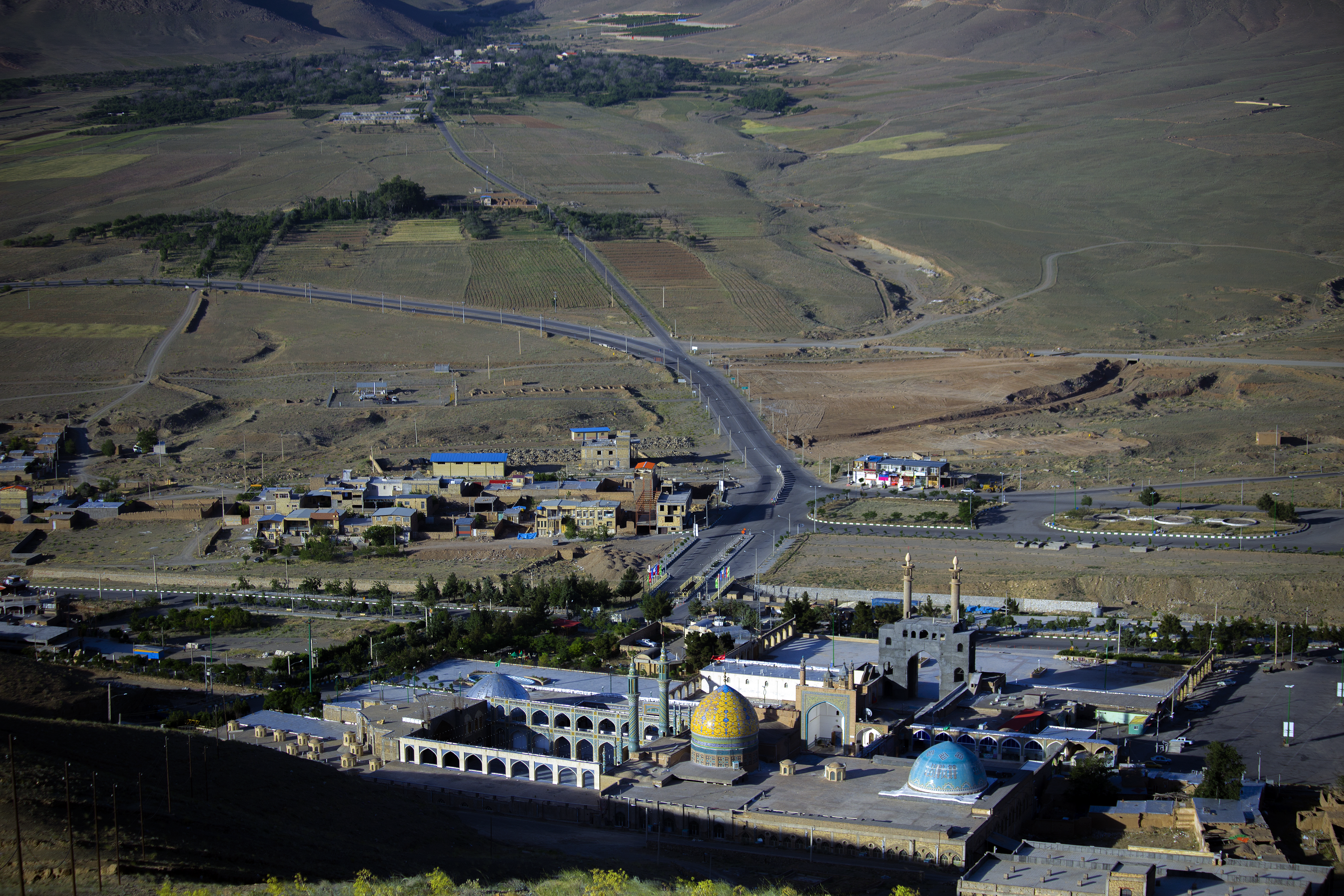 'Ali ibn Muhammad ibn 'Ali ibn al-Husayn was the son of the fifth imam of Twelver Shii Muslims and fourth imam of Ismaili Shii Muslims, Muhammad al-Baqir.